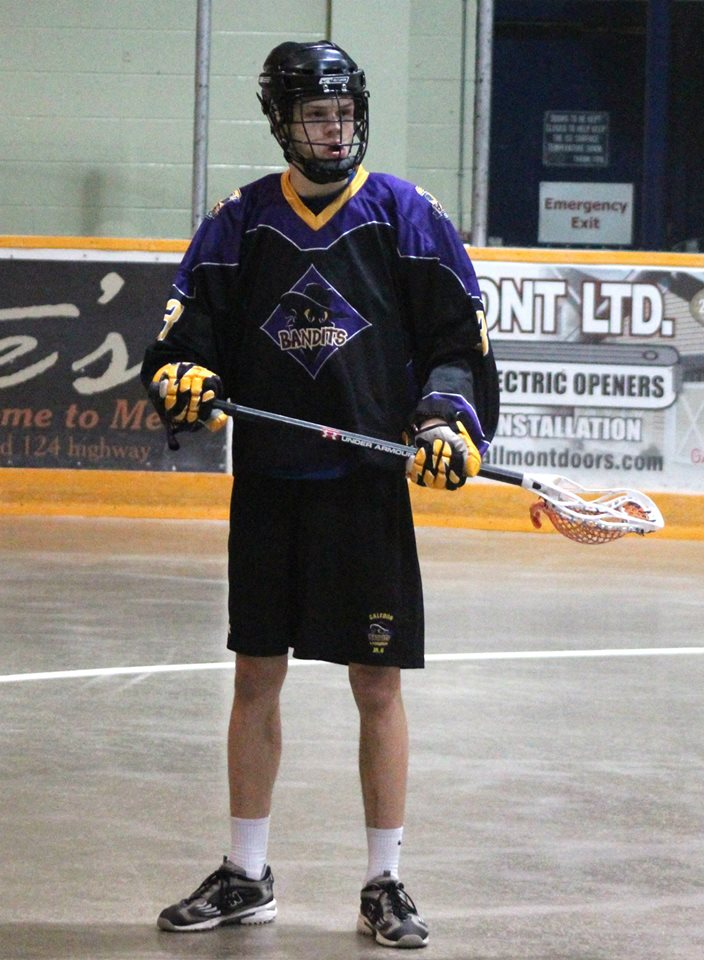 These images of Ontario Junior C Lacrosse Action action during the 2015 season are taken by Devan Mighton.